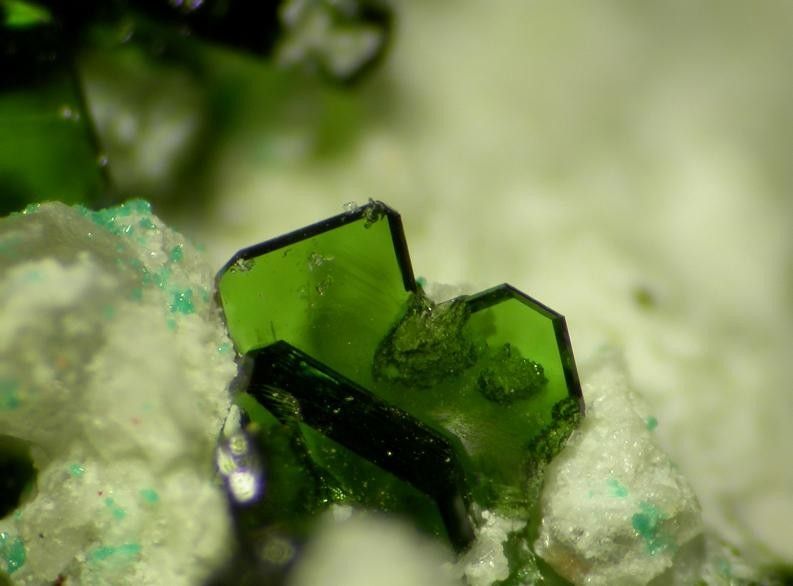 Lindgrenite Locality: San Samuel Mine ("San Manuel Mine"), Carrera Pinto, Cachiyuyo de Llampos district, Copiapó Province, Atacama Region, Chile Field of view 4 mm. Specimen and photo Leon Hupperichs.